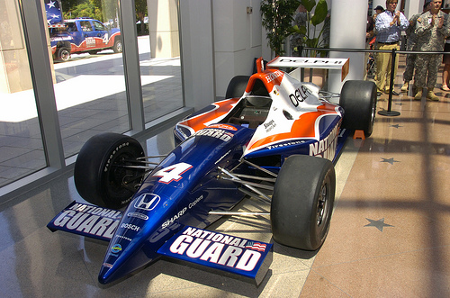 The new 230-MPH, No. 4 National Guard IndyCar at the Army National Guard Readiness Center at Arlington Hall in Arlington, Va., on June 25, 2008. The National Guard is participating in the Indy Racing League for the first time. (U.S. Army photo by Staff Sgt. Jim Greenhill) (Released)